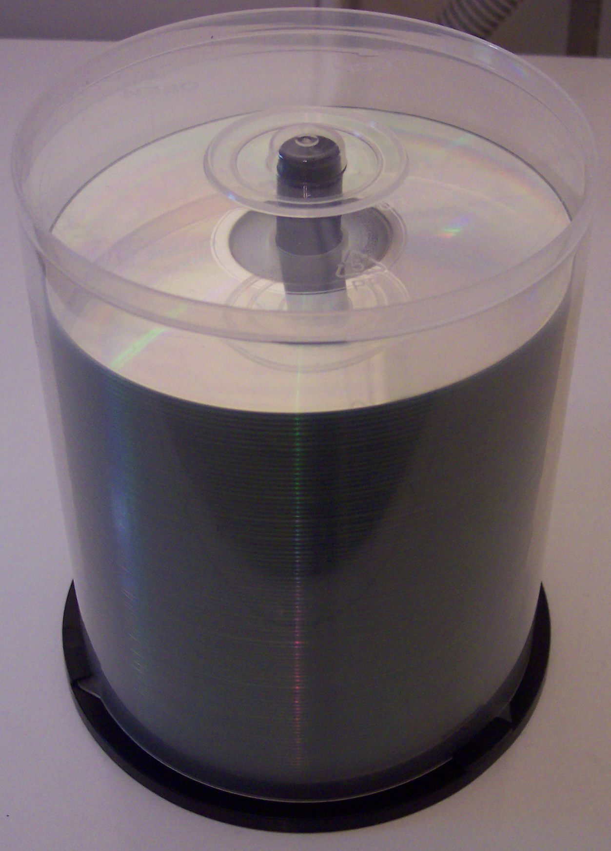 Cakebox; 100 CDs/DVDs closed